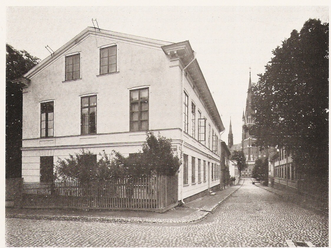 Göteborgs 2nd nation house Uppsala after plastering 1878-87